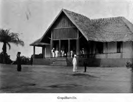 Photos extracted from Le Congo belge: notes and impressions, by René Vauthier